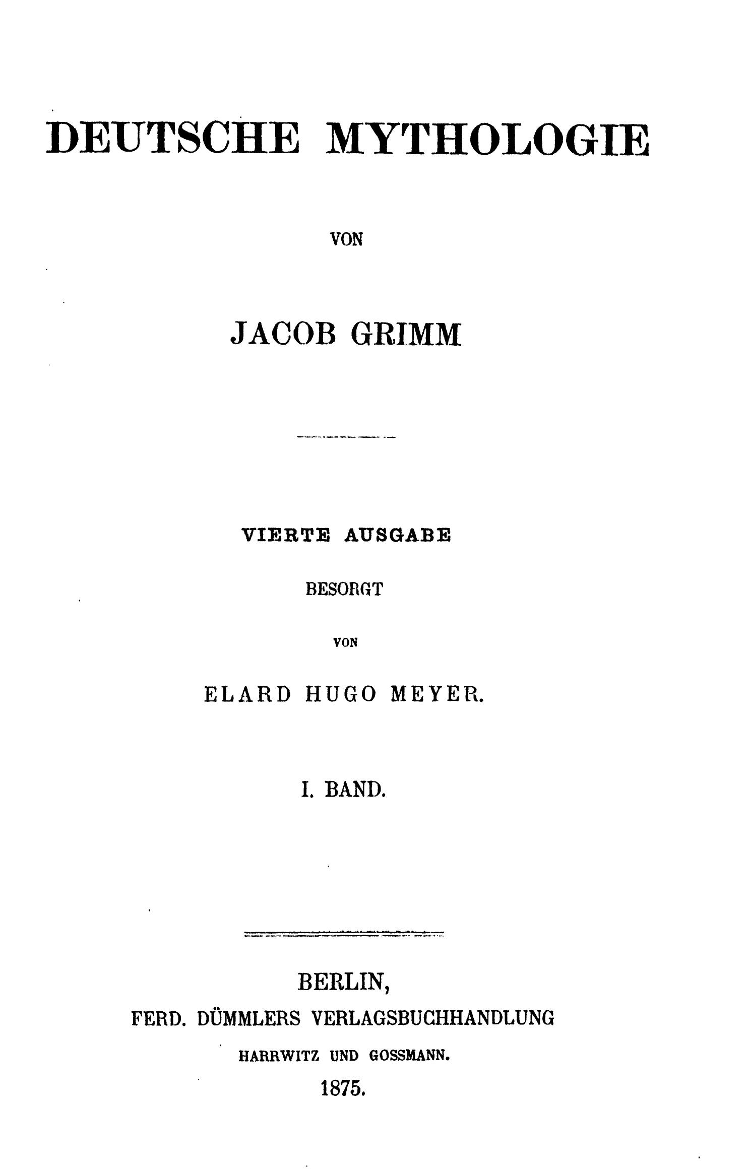 This is a scan of the historical document